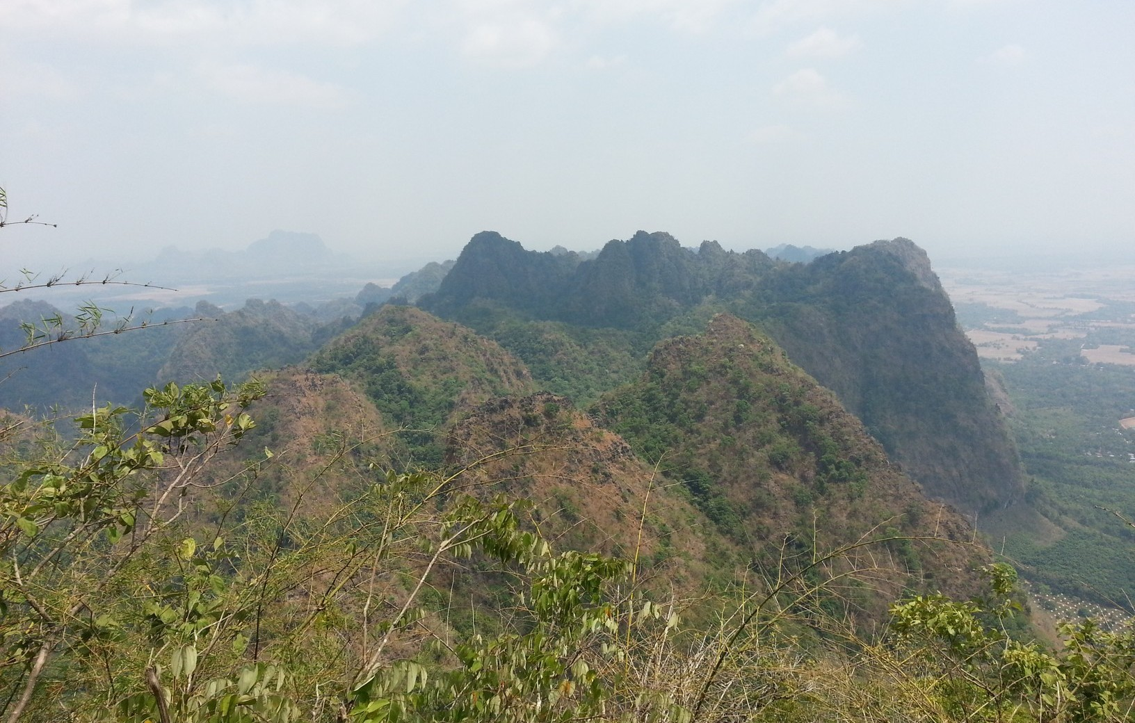 Mount Zwegabin, Kayin State